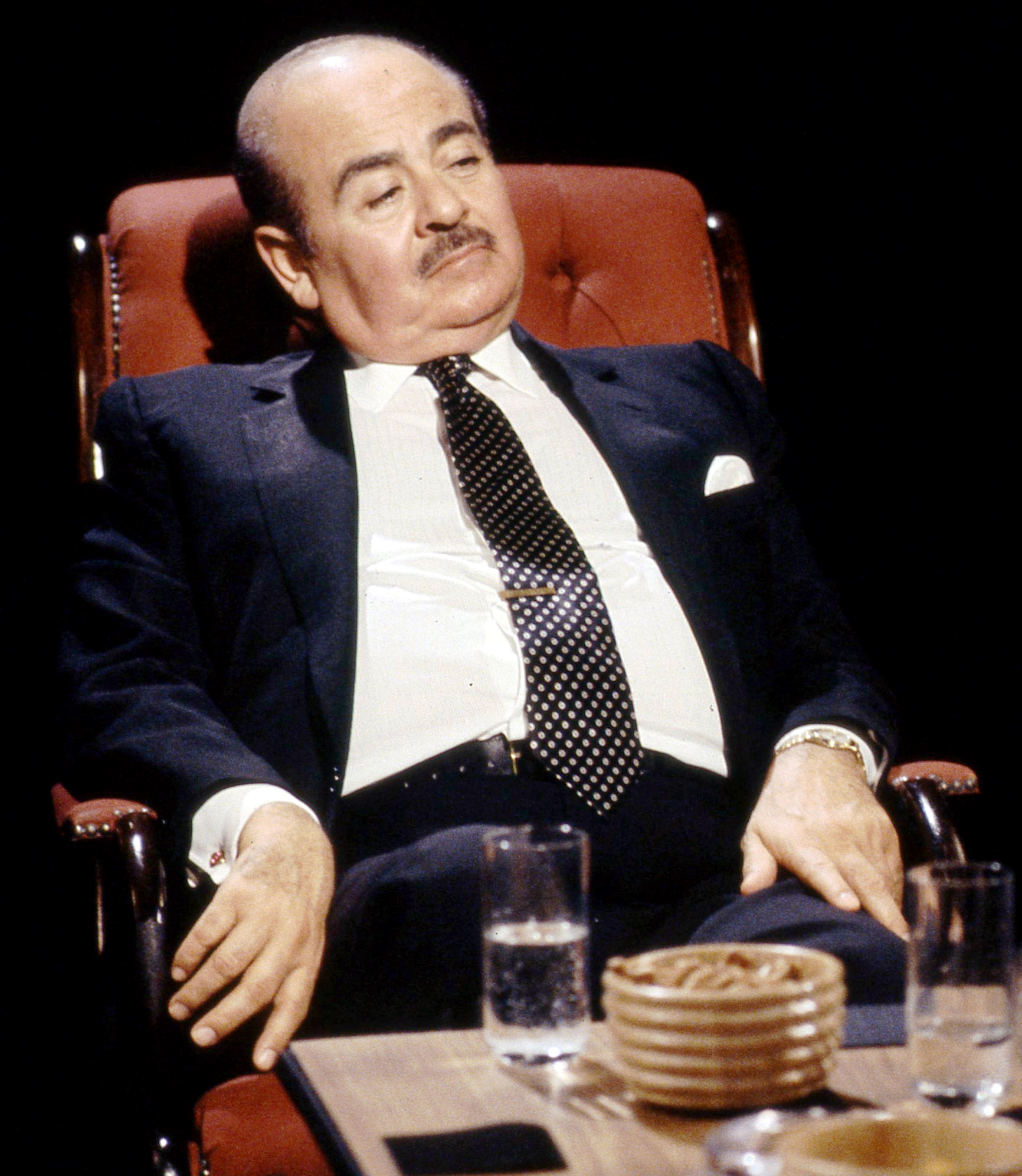 Adnan Khashoggi appearing on After Dark - episode 'The Gulf: Counting The Cost' - on 2 March 1991. Other guests included Adnan Al-Bahar, Chris Cowley, Edward Heath, Robert McGeehan, Lord Weidenfeld and Mona Bauwens. More here.